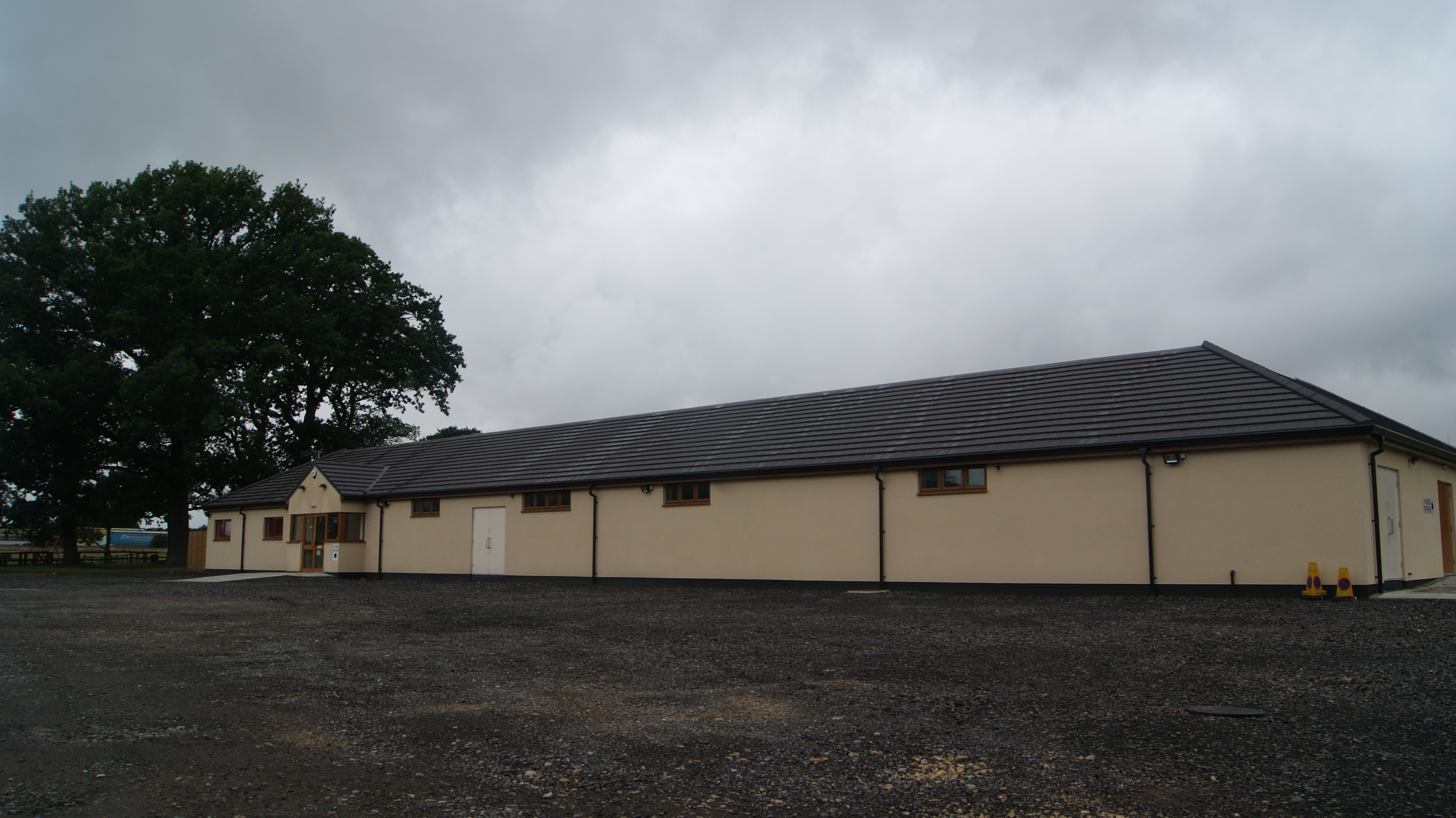 New club house, Grange Park, Wetherby, West Yorkshire. Taken on the evening of Wednesday the 31st of July 2013.